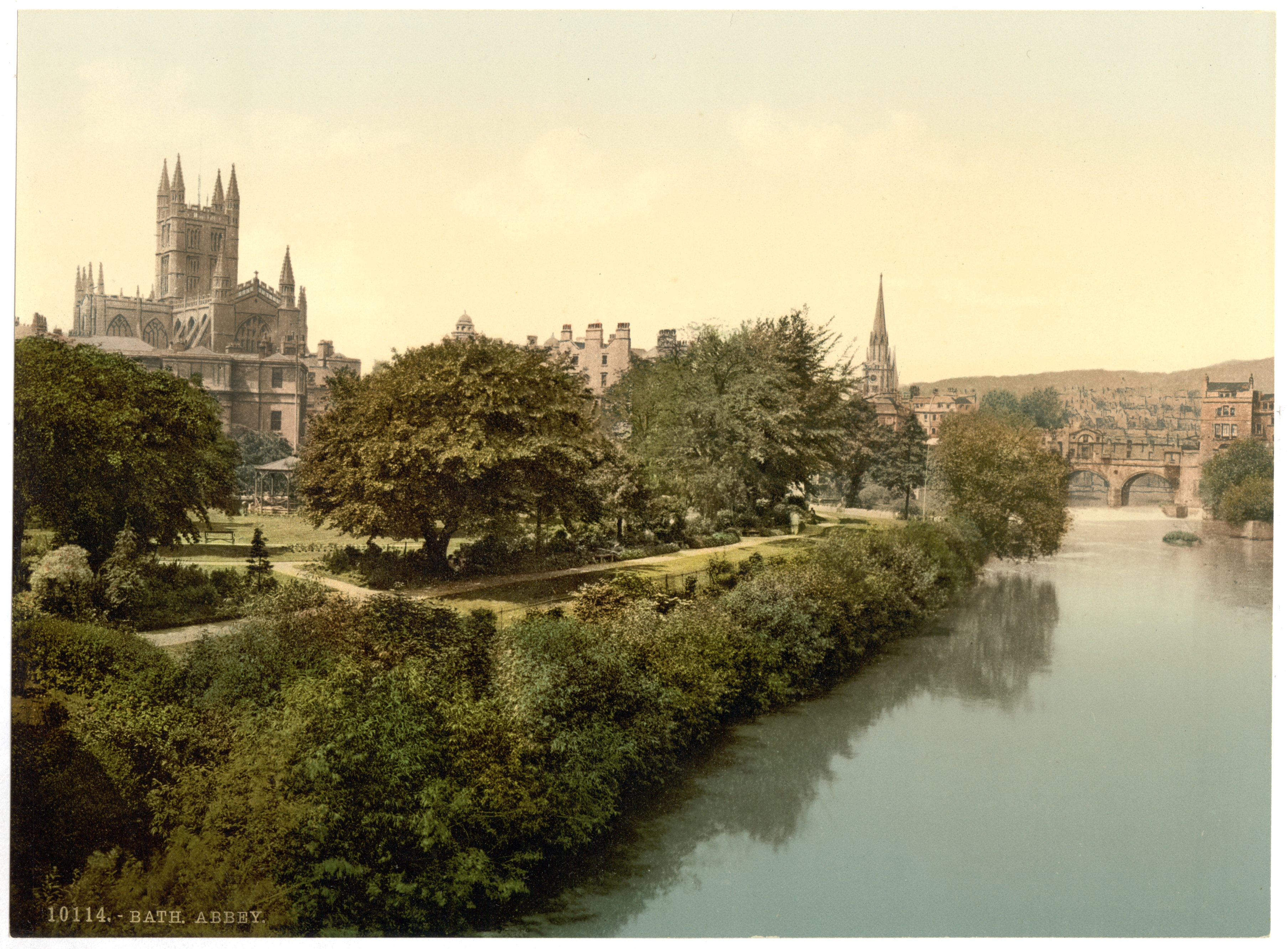 Photochrom of Bath Abbey.